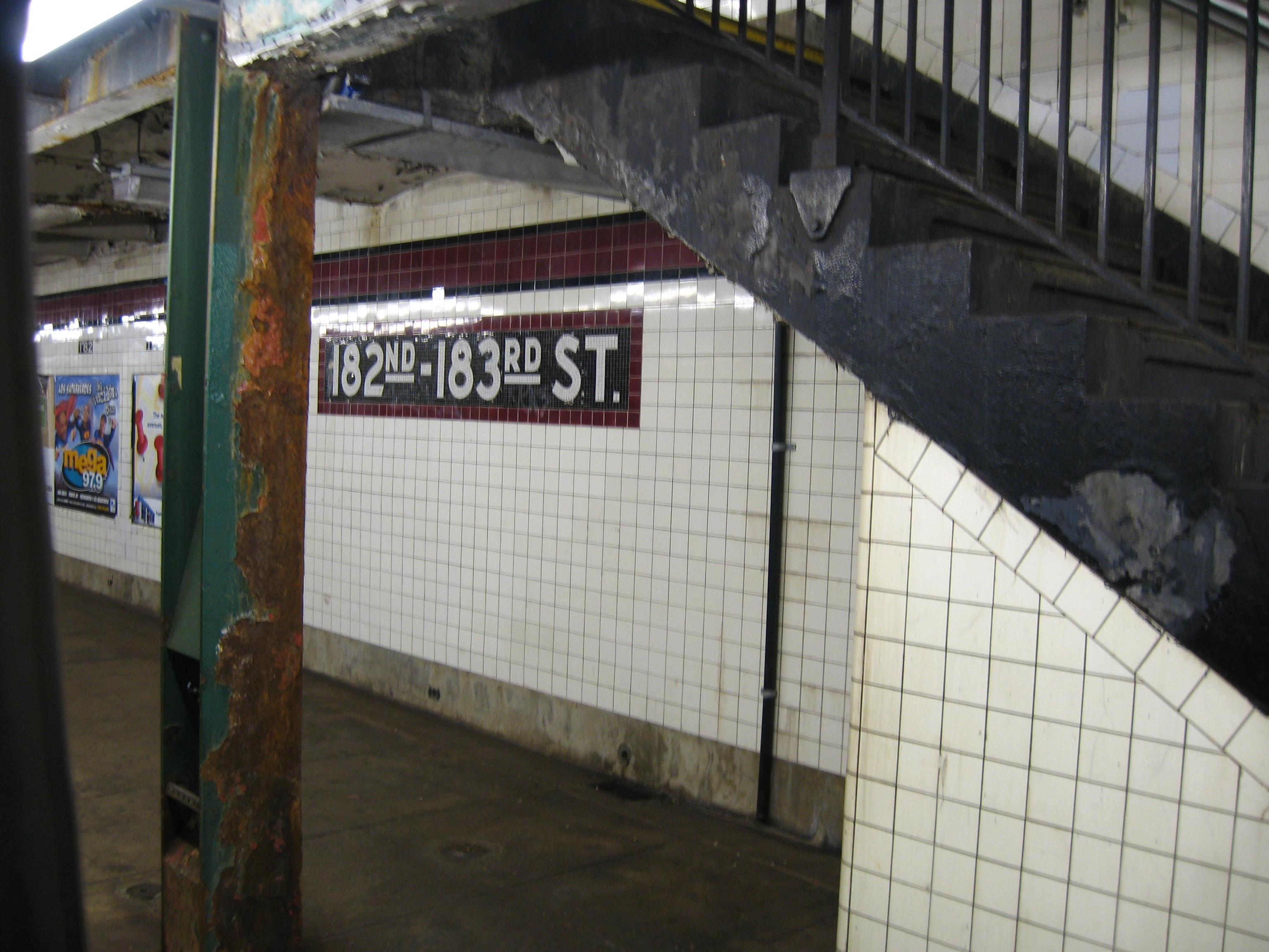 Northbound platform en:182nd–183rd Streets (IND Concourse Line), looking out the car door.